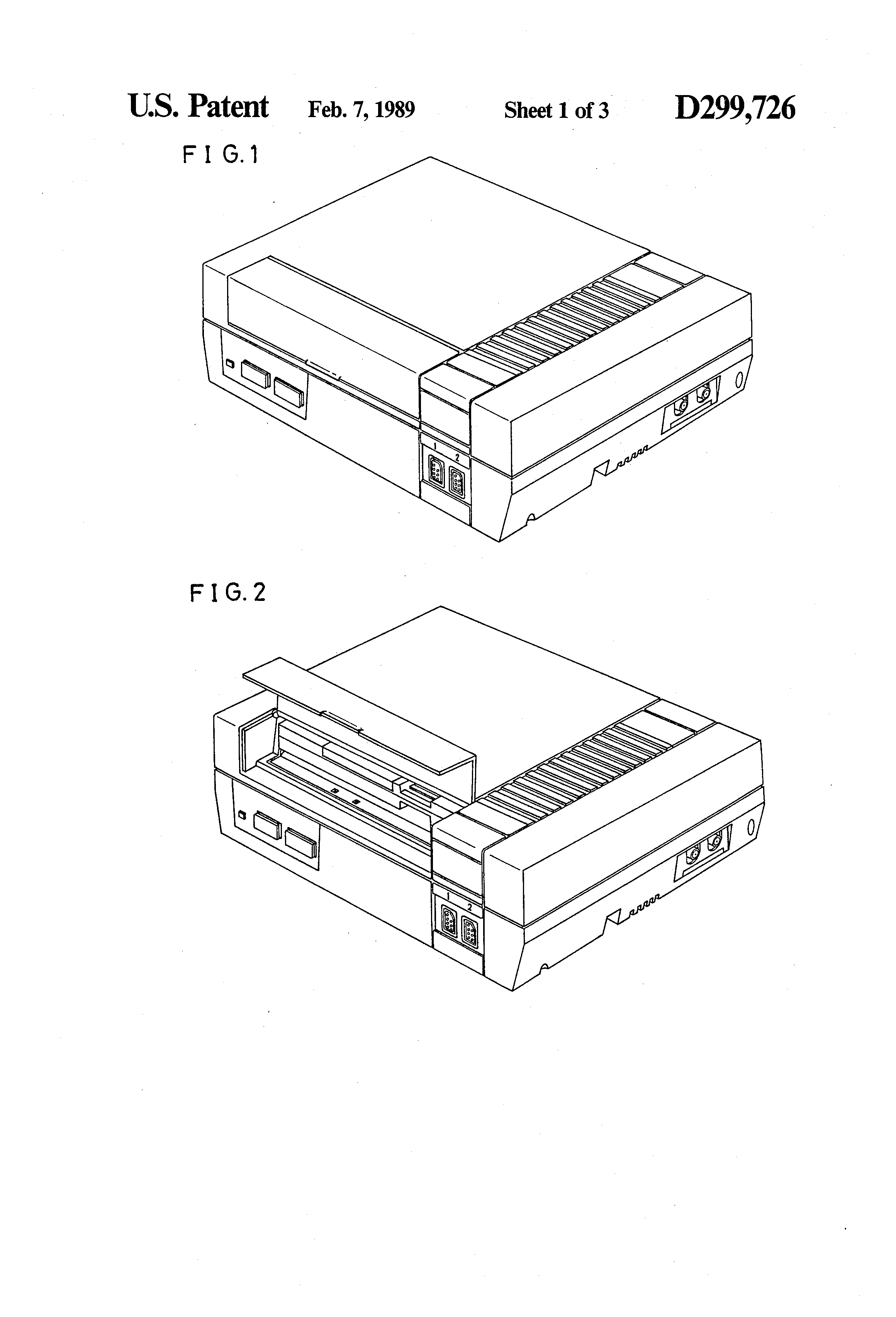 Original design for the Nintendo Entertainment System as created by Masayuki Yukawa for a United States patent